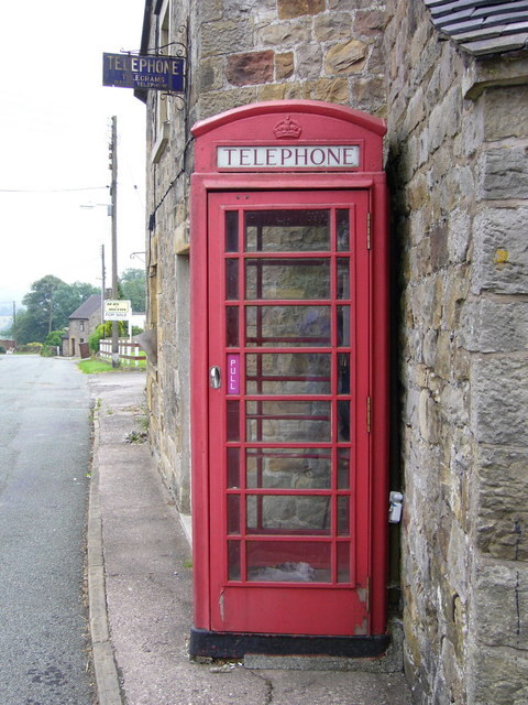 K6 Kiosk. in Quarter Lane near Leek Road, Warslow, Staffordshire. The sign above the kiosk reads "Telephone. Telegrams may be telephoned".